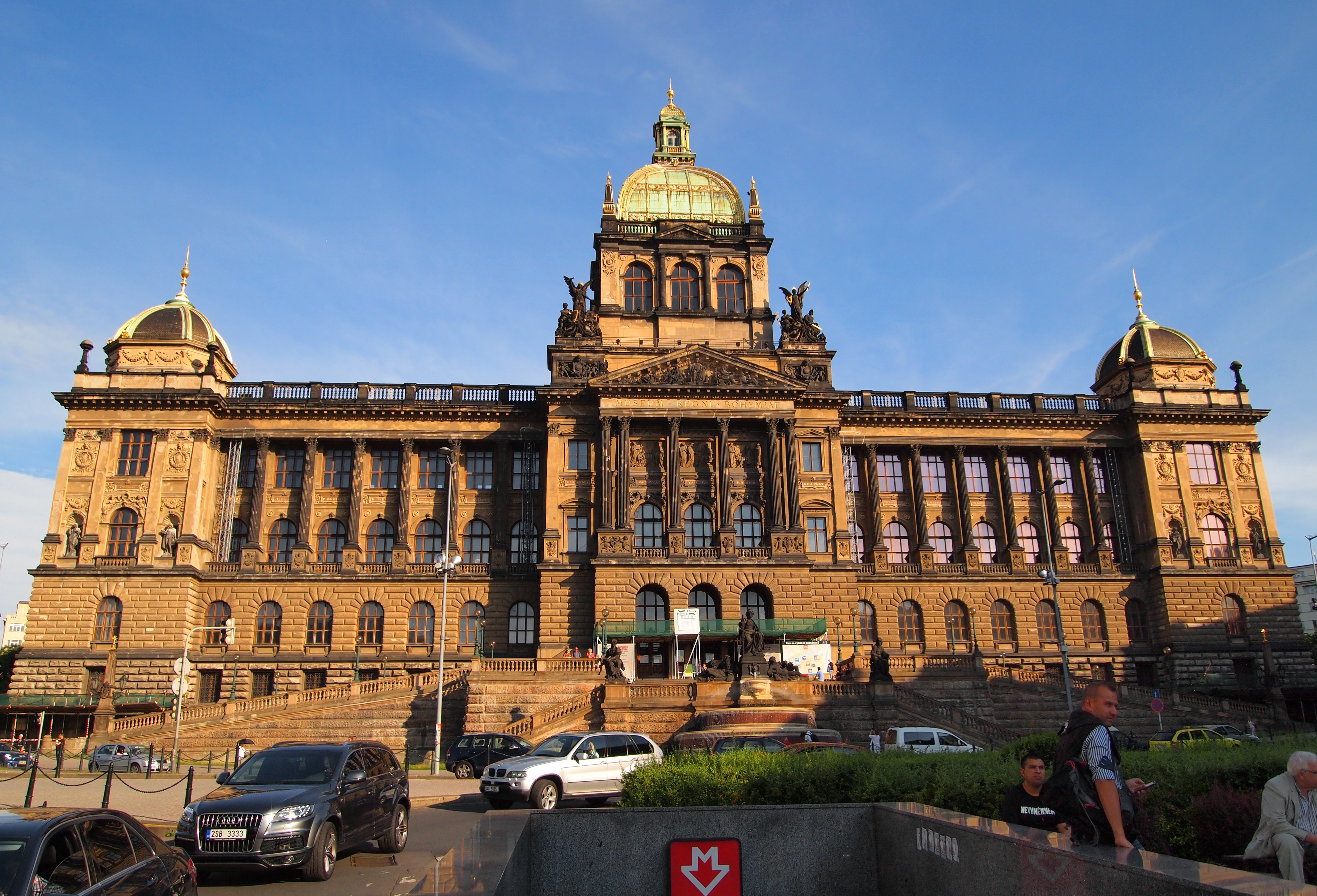 National Museum, Prague. This photograph was taken with an Olympus E-PL1